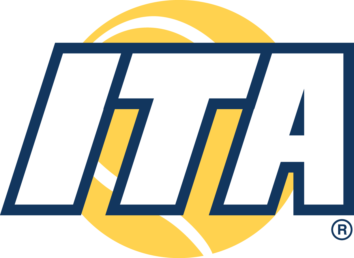 ITA New Logo